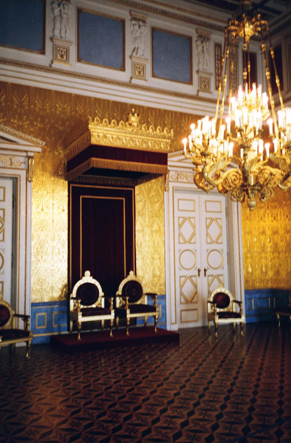 One of the throne-rooms of the Bavarian King, Munich Residenz, Bavaria. Does also show the wooden-flooring.